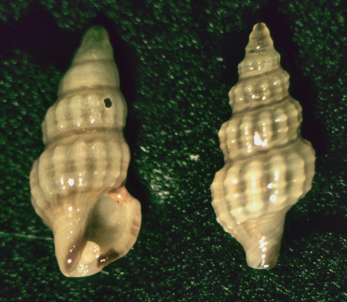 Etrema bicolor G. F. Angas, 1871, a cone snail from the family Conidae; South Australia